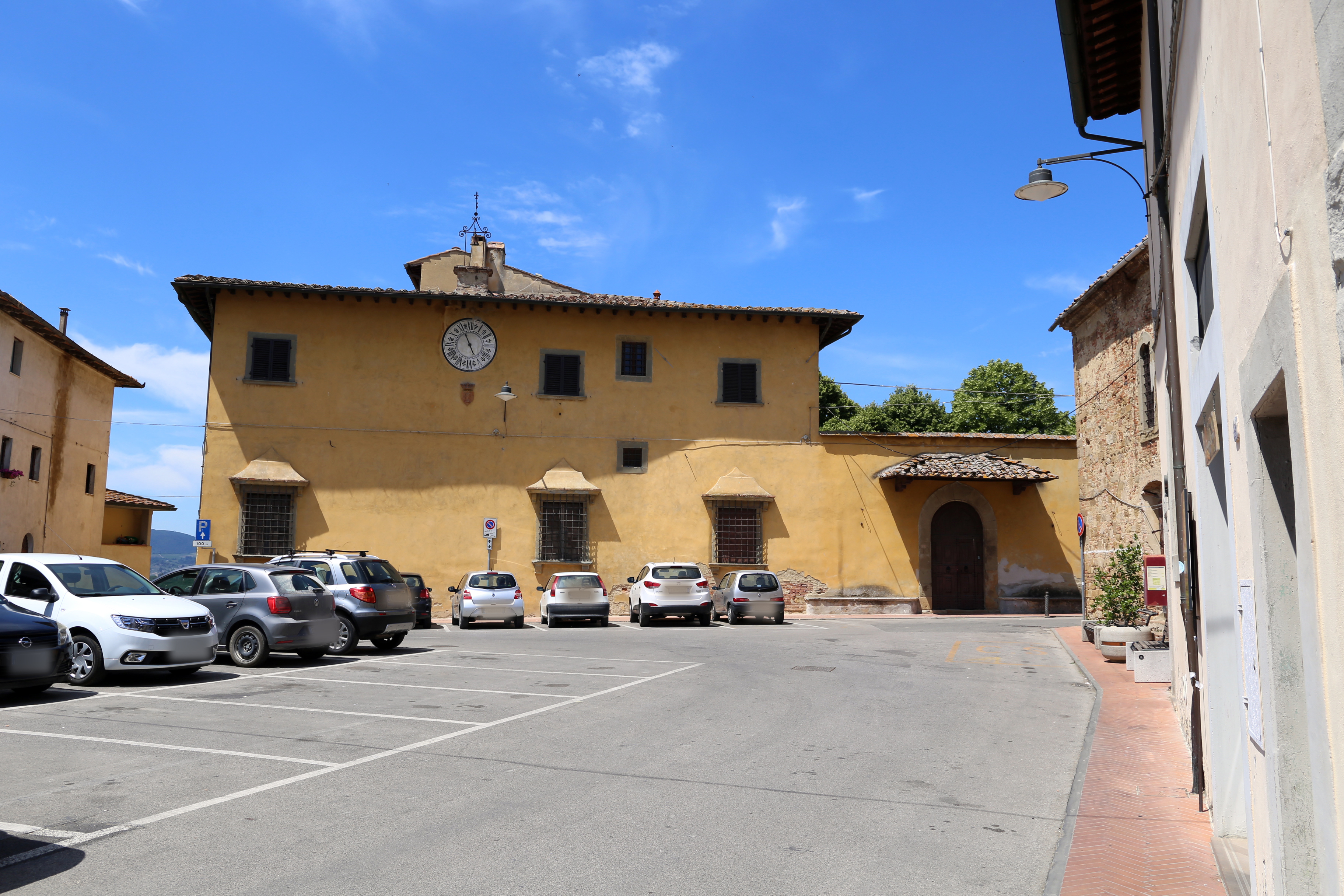 Vico d'Elsa (Barberino Val d'Elsa)